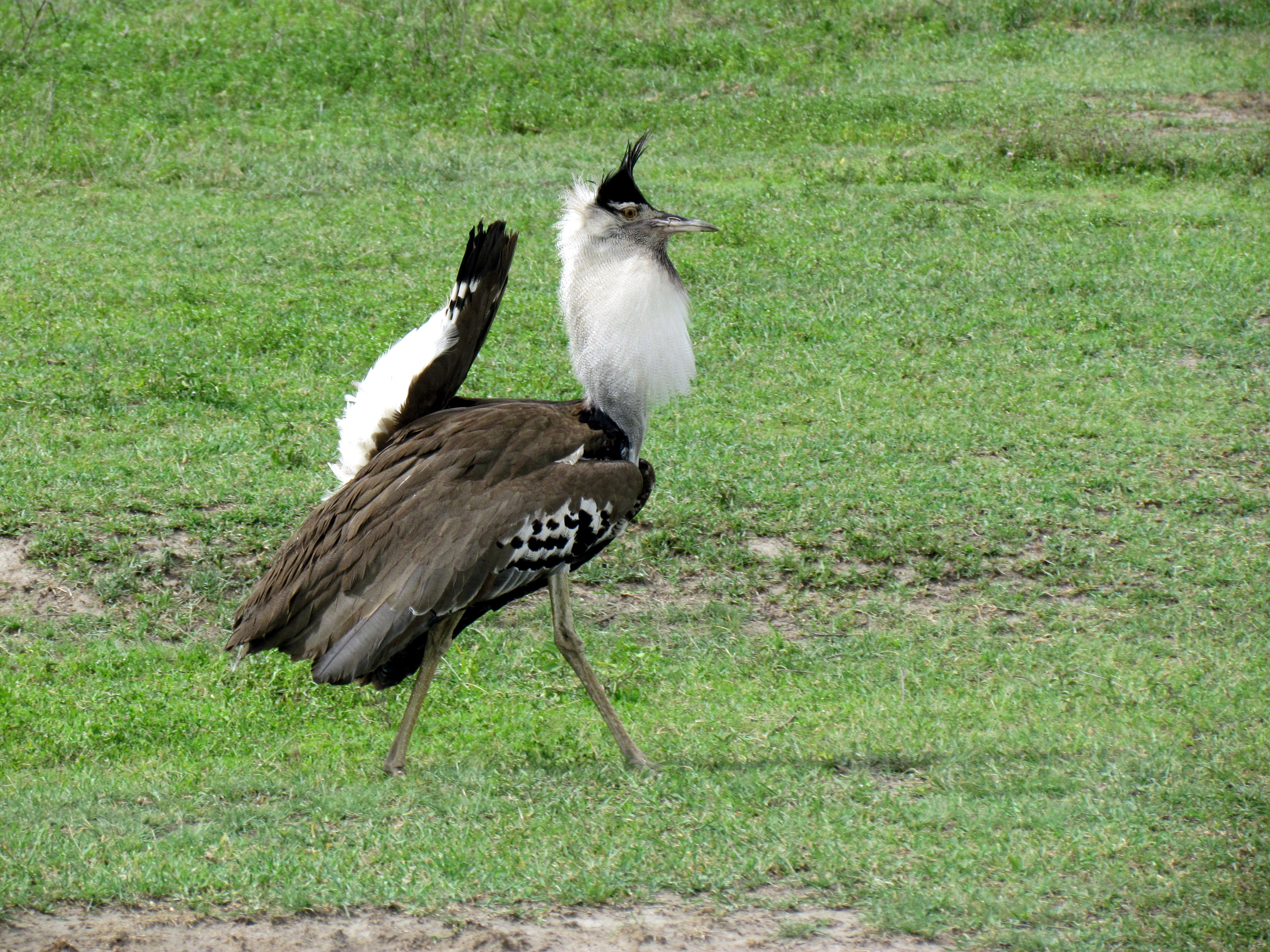 Kori bustard bird (Ardeotis kori) - Ngorongoro Conservation Area - Tanzania, Africa